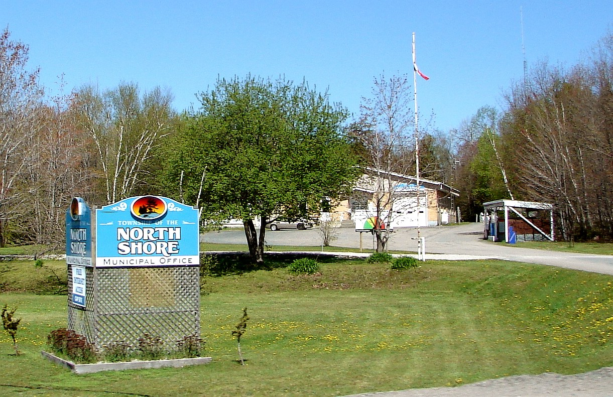 Municipal buildings of North Shore Township in Algoma Mills, Ontario, Canada